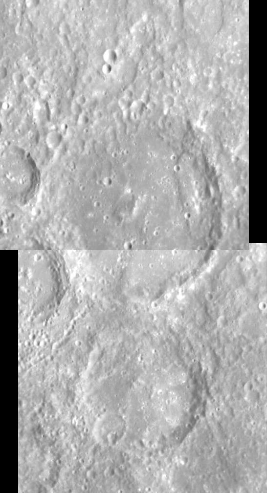 Chu Ta crater on Mercury (center). MESSENGER Narrow Angle Camera mosaic. North is at top. Length is about 240 km. Statistics for top image are: Emission Angle: 19.2 Incidence Angle: 55.9 Latitude: 2.9 Longitude: 254.4 Phase Angle: 36.7